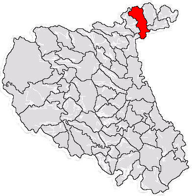 Map of limits of commune in Vrancea County